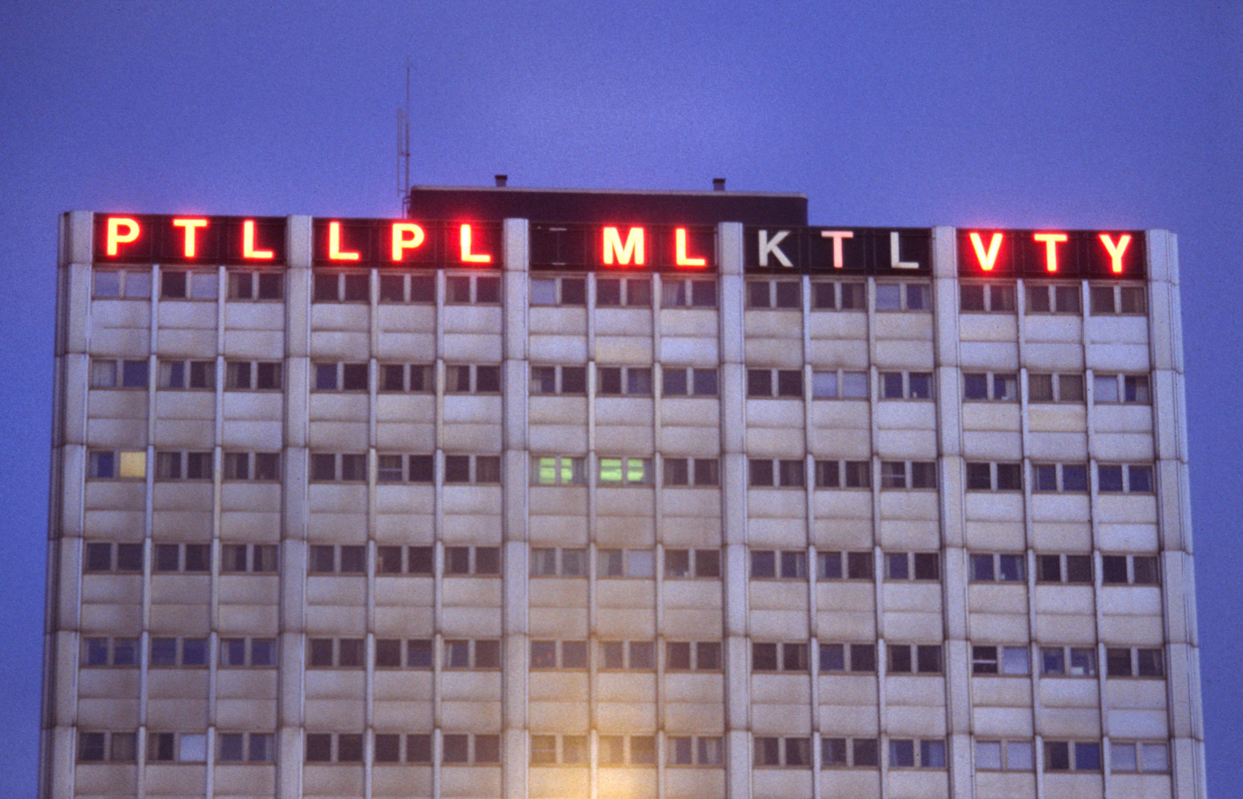 Office tower in Merihaka, Helsinki, Finland, with neon signs displaying acronyms of various trade unions, 1993.